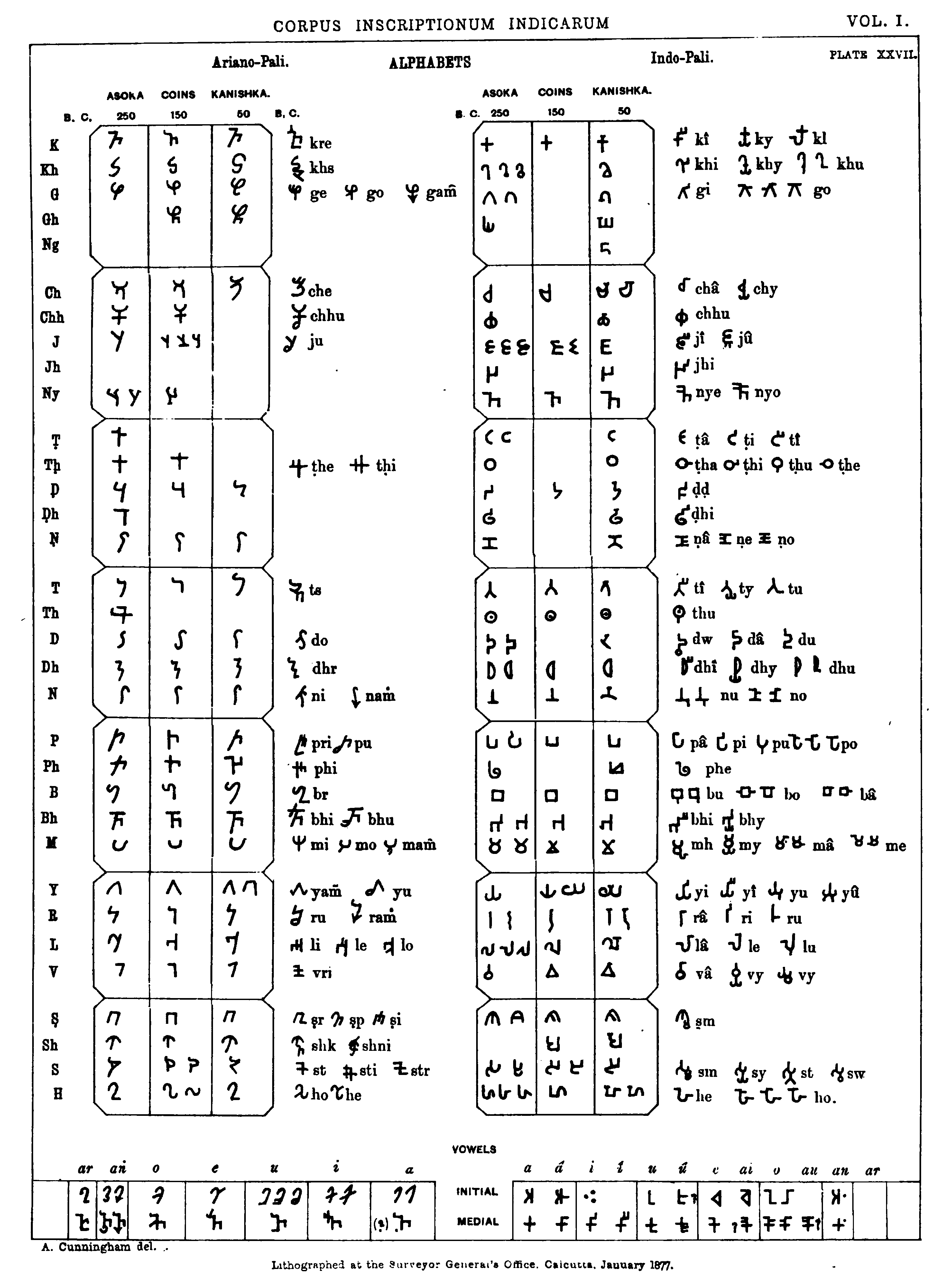 Alphabets of Ashoka Edicts.